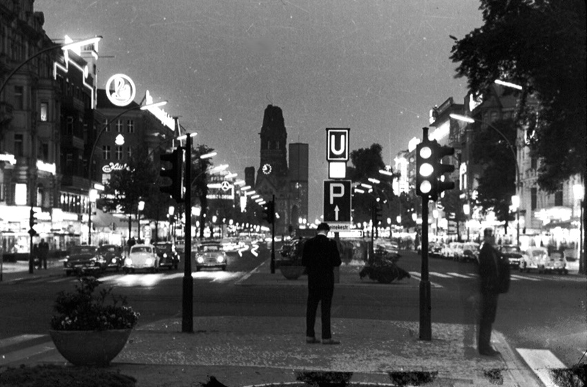 Looking east, toward the Kaiser Wilhelm Memorial Church.